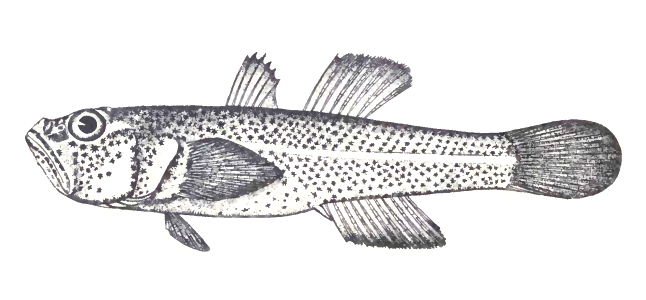 Dwarf freshwater goby, Gobiopterus stellatus (Herre, 1927)